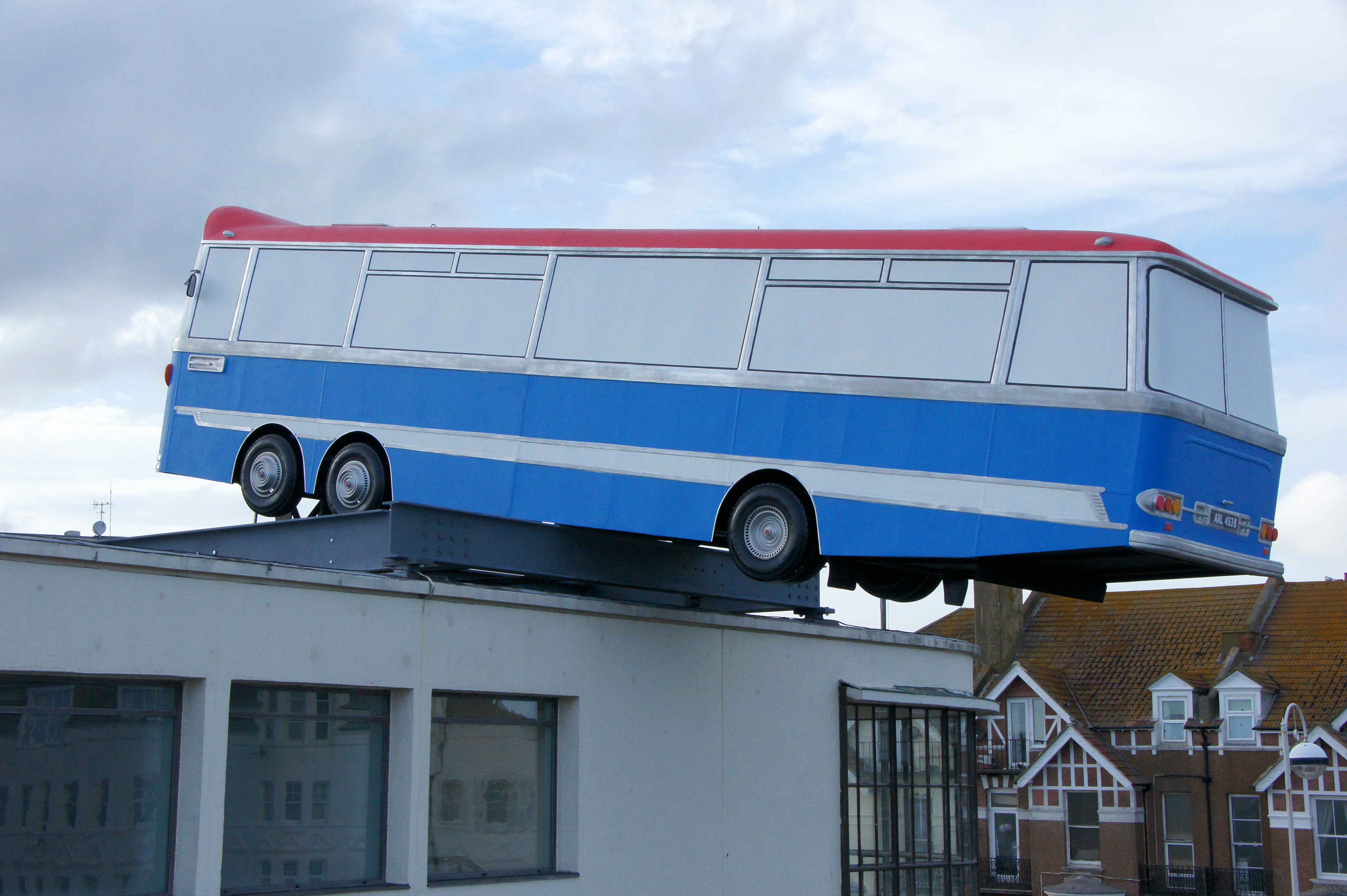 De La Warr pavilion, Bexhill. Wonderful!